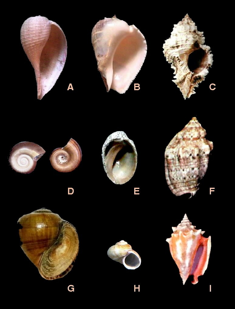 Template:Plate with various shells of gastropods. DIVERSIDAD DE PROSOBRANCHIA